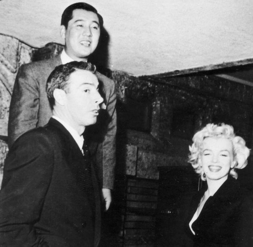 Joe DiMaggio and Marilyn Monroe staying at Imperial Hotel in Tokyo on their honeymoon. Behind DiMaggio is Tetsuzō Inumaru, Imperial Hotel General Manager.